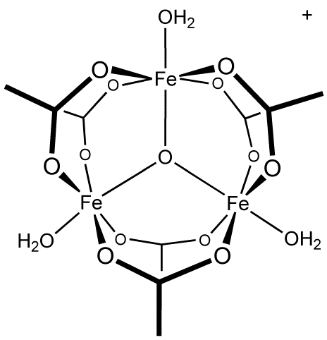 Molecular structure of the cation in basic iron acetate